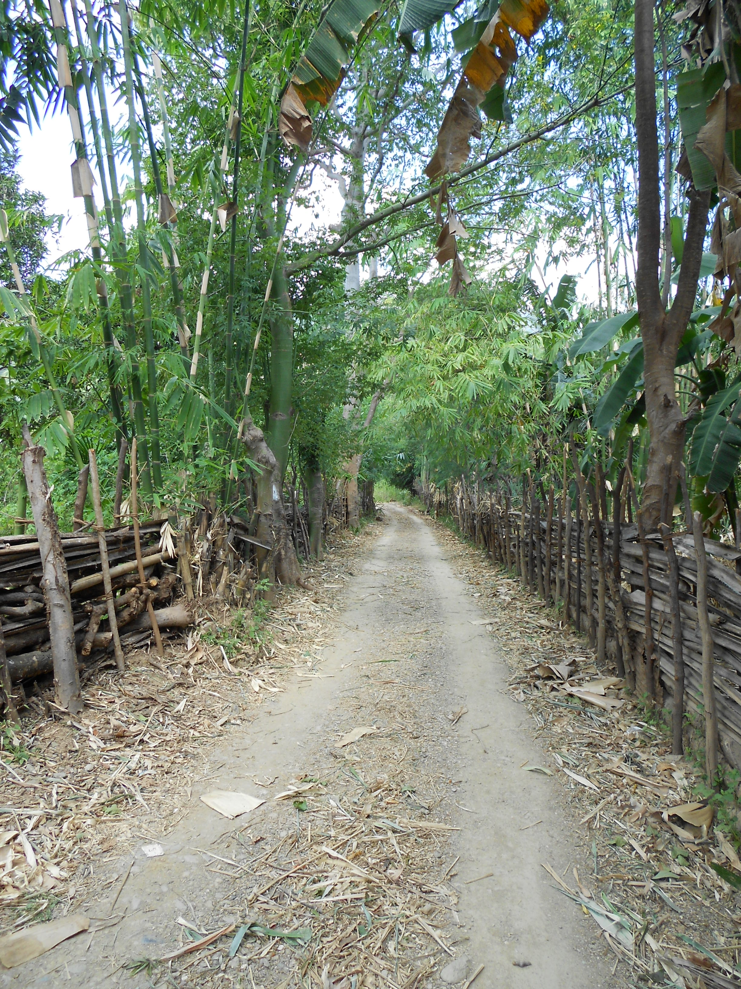 Sidara village, suco Hera, subdistrict Cristo Rei, district Dili, East Timor